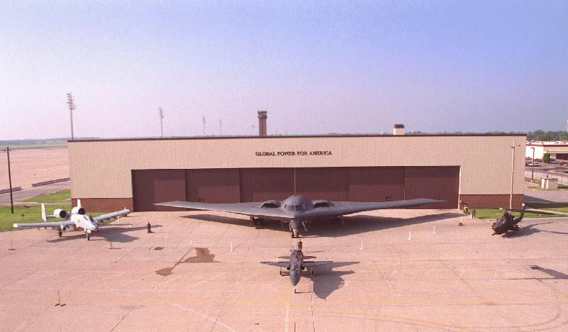 An A-10, B-2, T-38 and a helicopter of the 394th Combat Training Squadron, 509th Bomb Wing, Whiteman AFB, Missouri